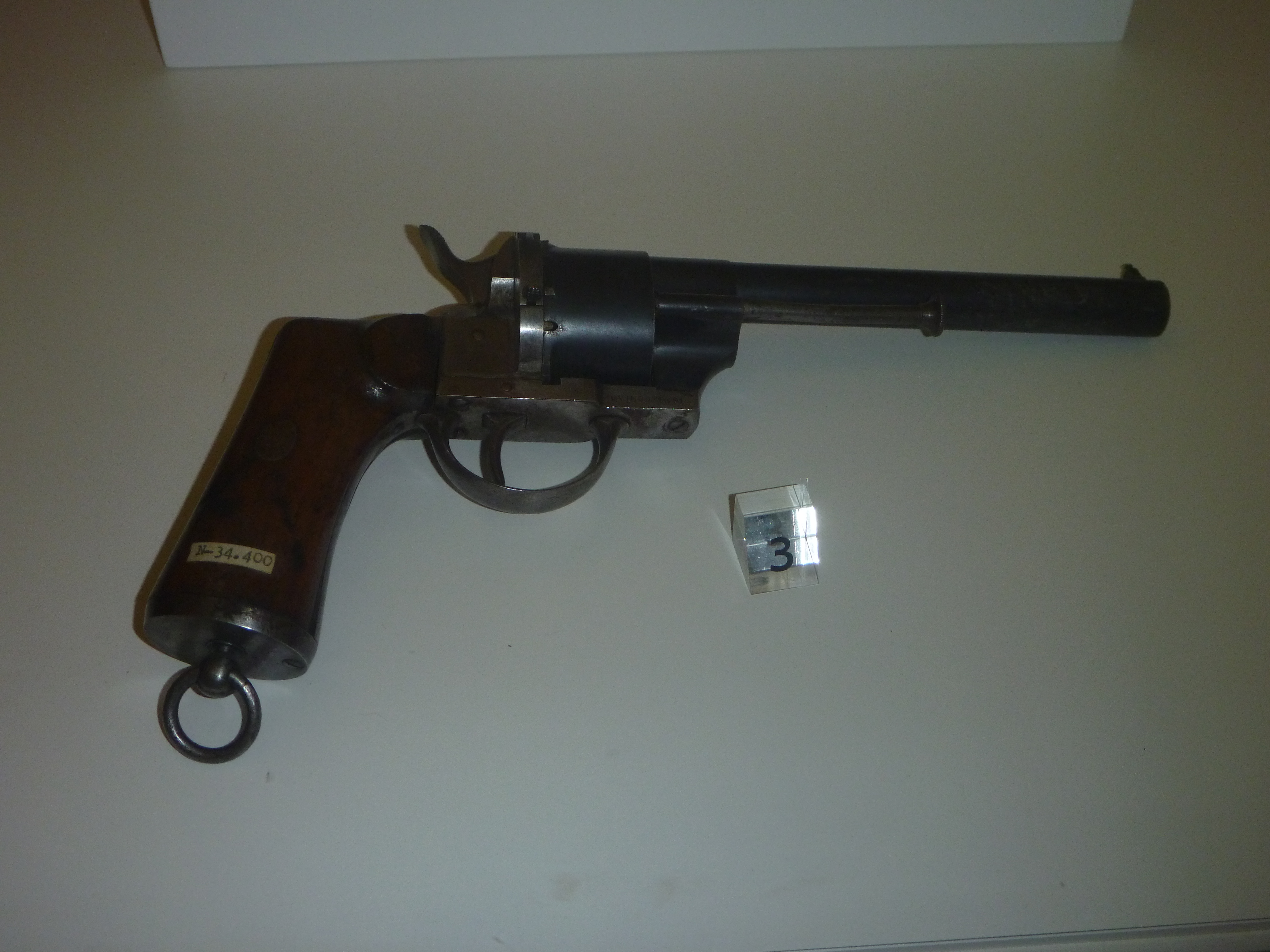 A Lefaucheux M1858 revolver